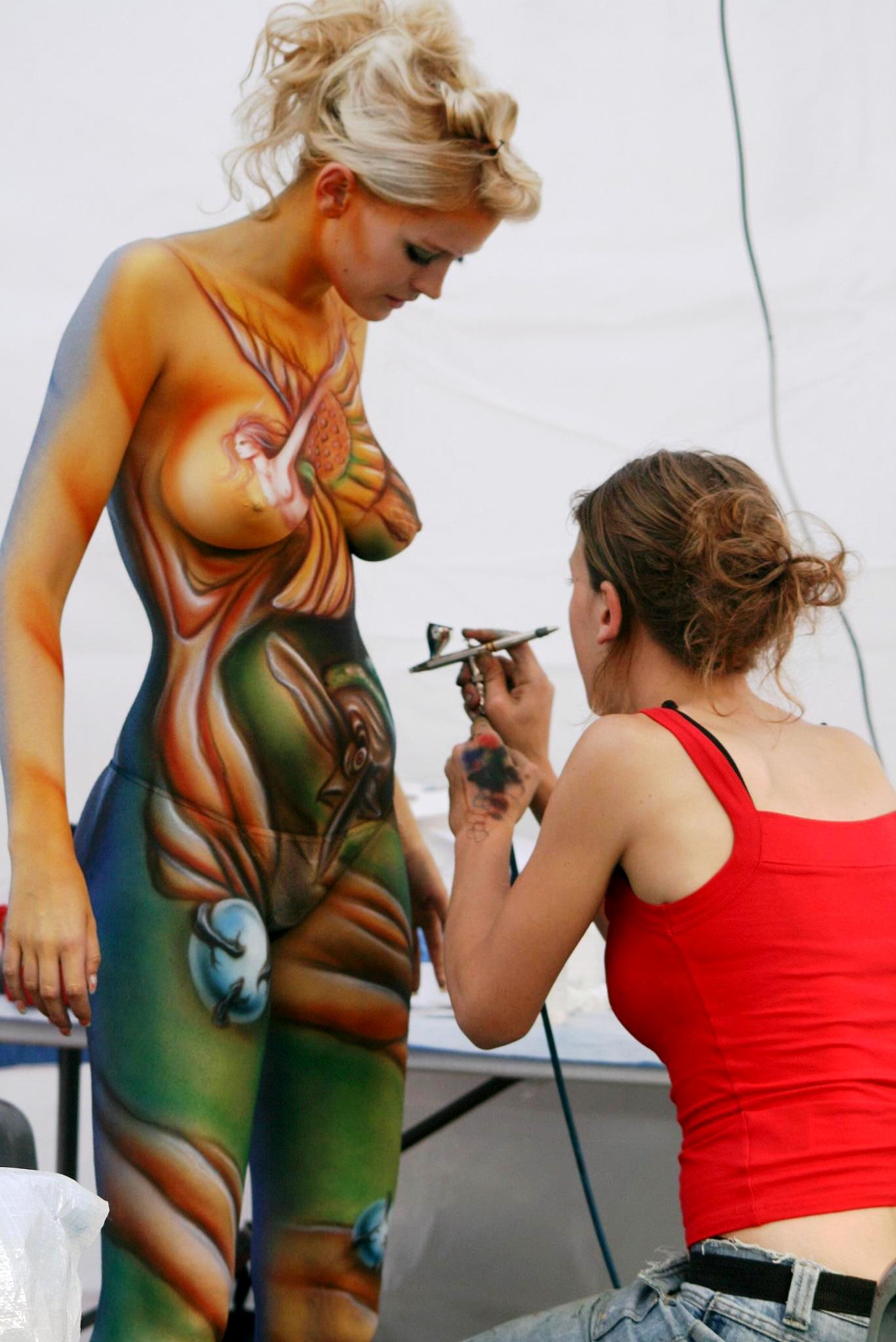 World Bodypainting Festival Asia . Day Two